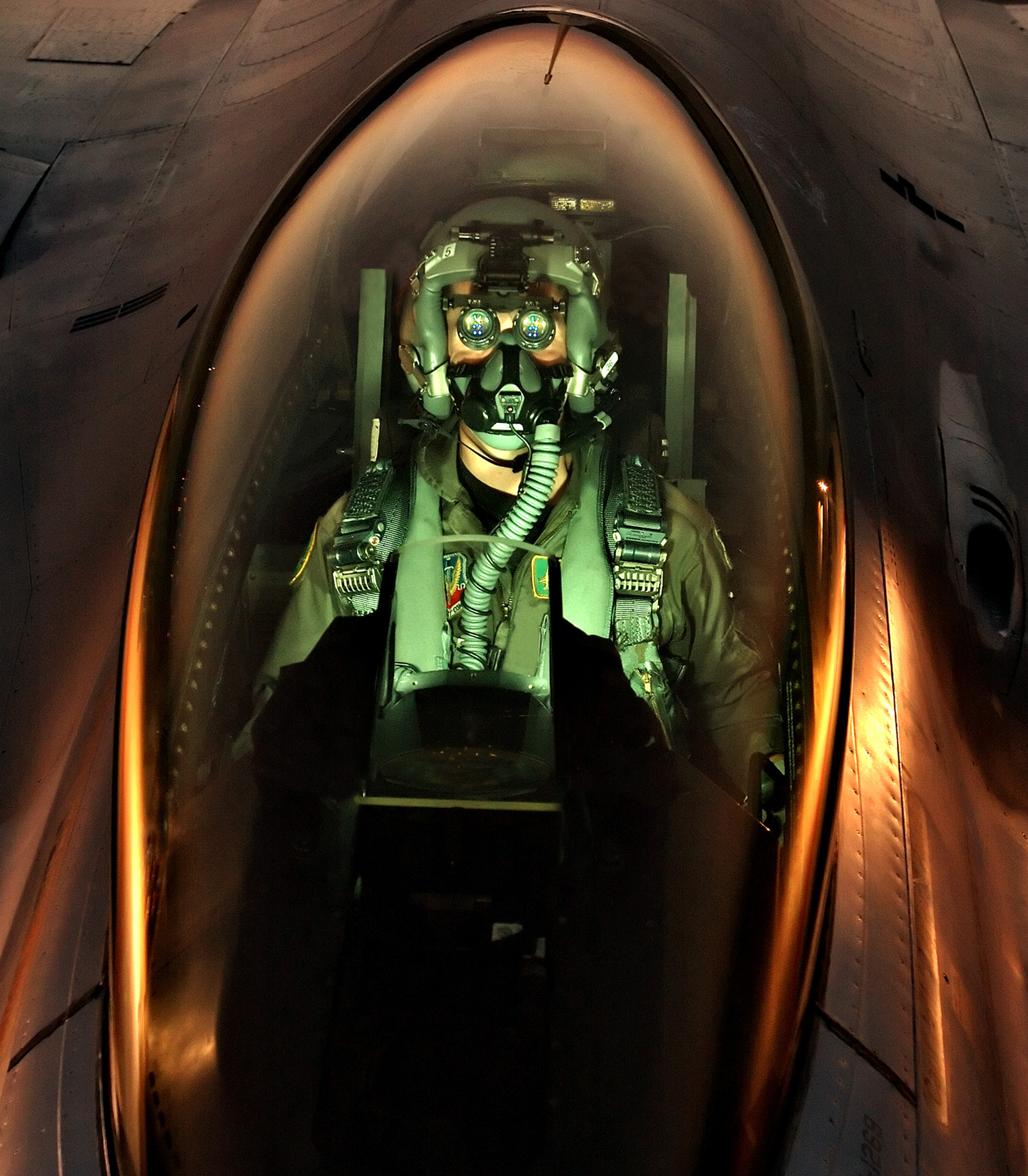 1st Lt. Matt Edson an F-16 pilot with the Vermont Air National Guard peers through his night vision goggles on the tarmac of Burlington International Airport in South Burlington, Vermont, USA.